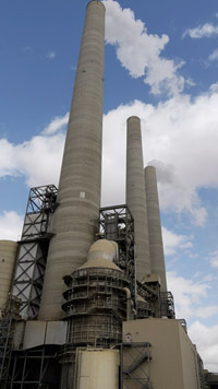 Close-up of the flue gas stacks and SO2 scrubber absorber, looking northwest.